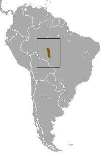 Hershkovitz's Marmoset (Mico intermedius) range